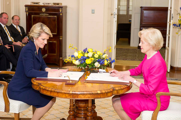 Photo of Julie Bishop being sworn in as Foreign Minister